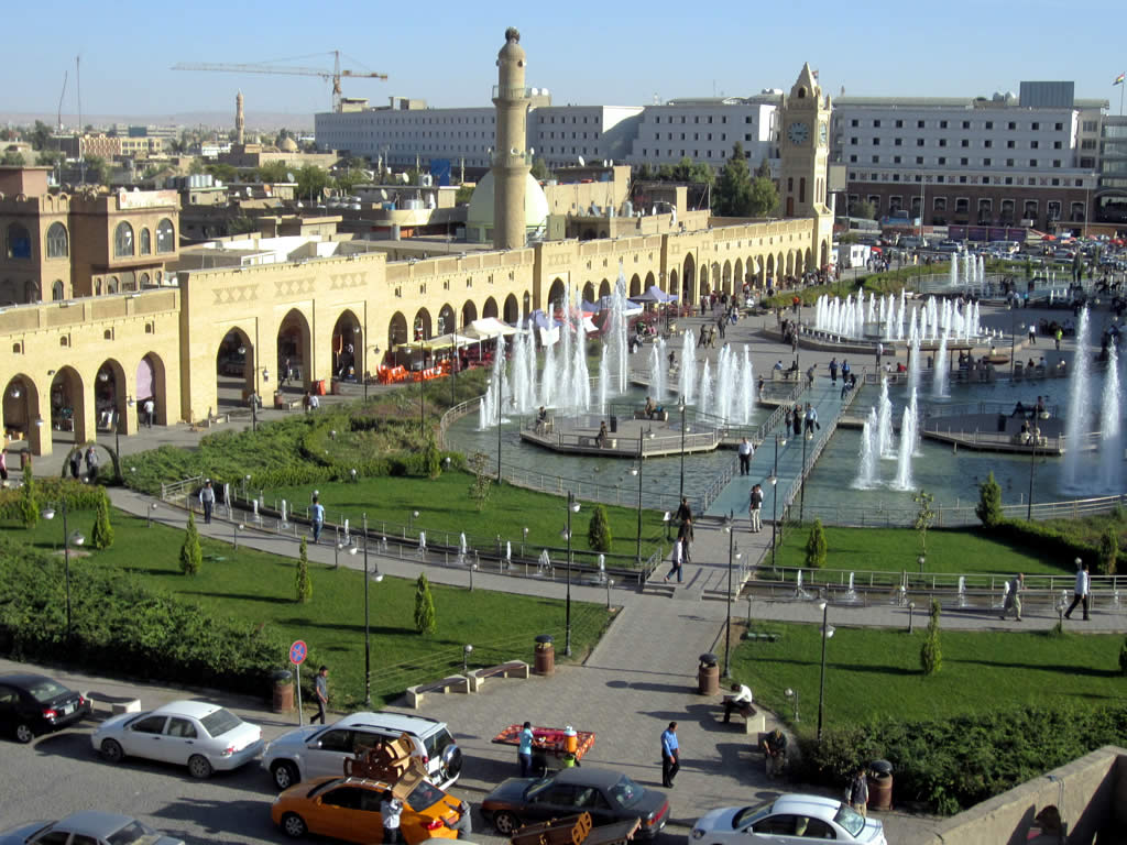 Fountain-filled Shar Park in downtown Erbil was redeveloped in 2010.